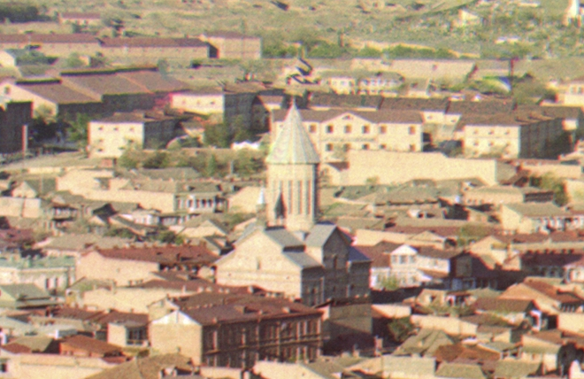 The 18th century Armenian Church of the Red Gospel in Tbilisi in the early 1900s. Cropped from an early color photograph from Russia, created by Sergei Mikhailovich Prokudin-Gorskii as part of his work to document the Russian Empire from 1909 to 1915. It was taken using three black-and-white exposures, with red, yellow and blue filters respectively, long before color photographic printing existed. The three resulting images were projected using color filters to create a color projection. More recently, the Library of Congress has scanned Prokudin-Gorskii's work and contracted with other firms to produce high-resolution color images from the black and white scans.